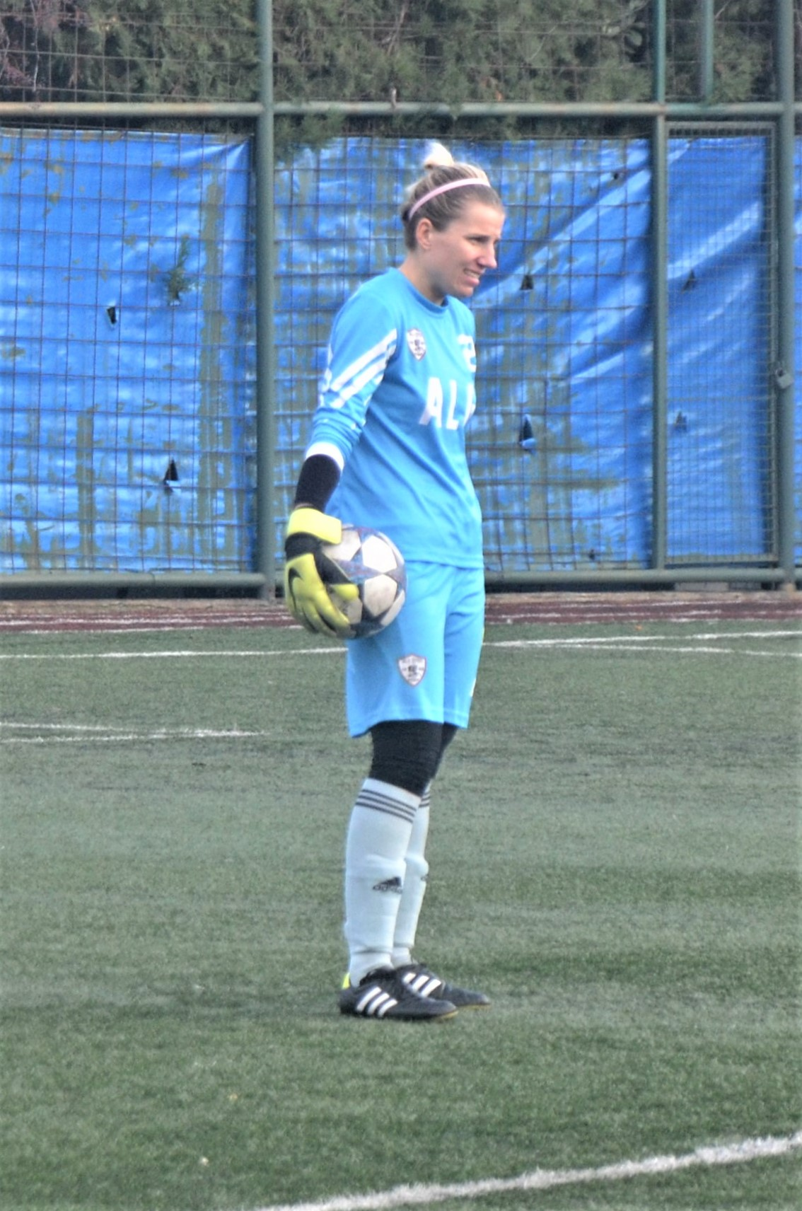 Iryna Pidkuiko of ALG Spor in the 2018-19 Turkish Woen's First League.